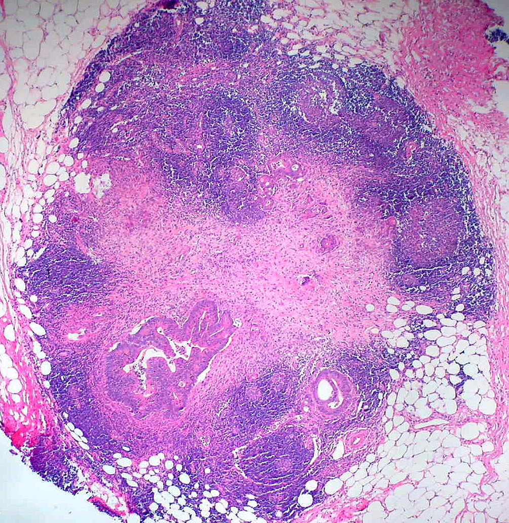 Metastatic Colonic Adenocarcinoma in Lymph Node This paracolonic lymph node is from a colectomy specimen from a 61-year-old woman with an obstructing tumor of the sigmoid colon.